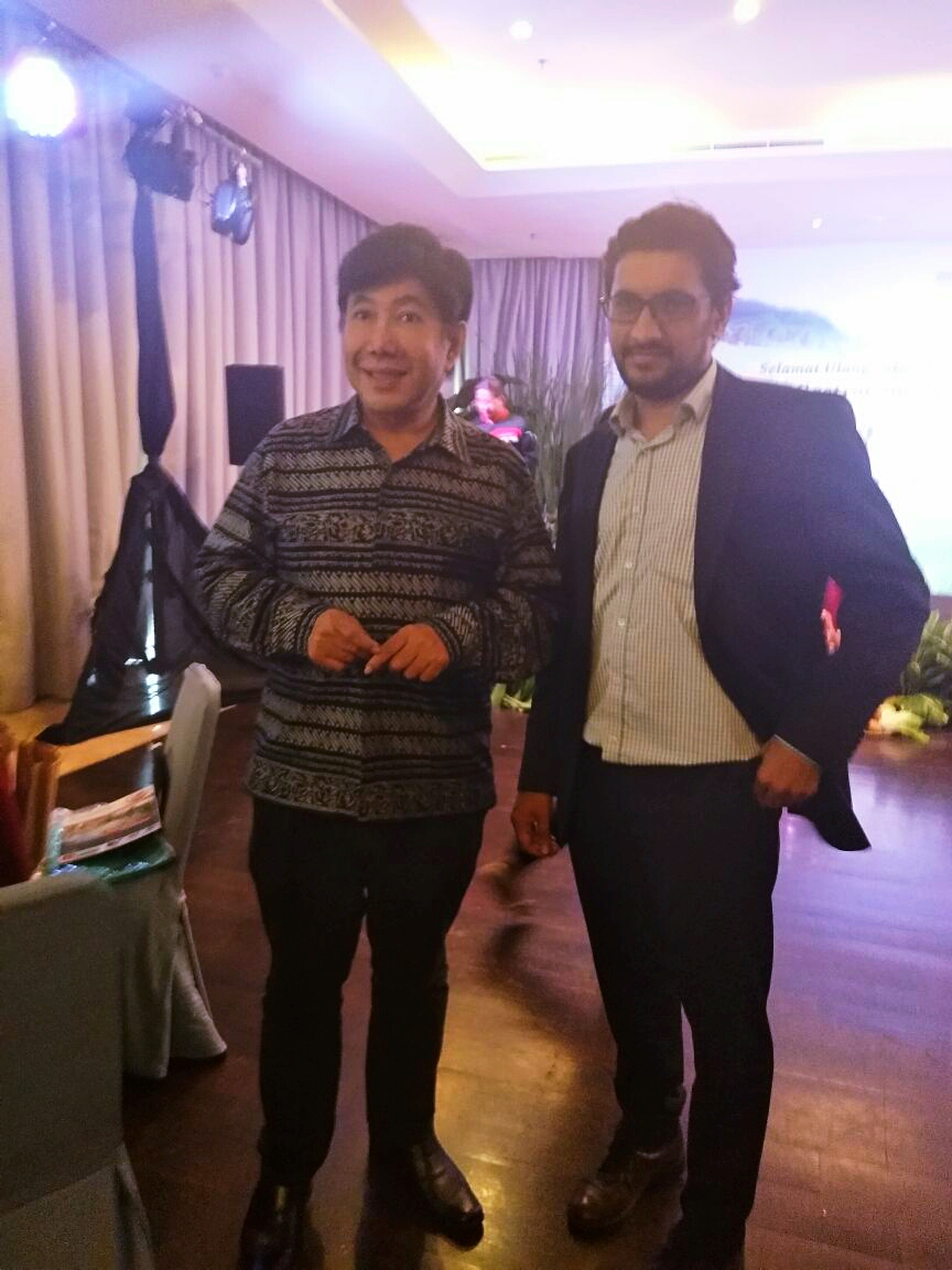 Guruh Soekarnoputra with filmmaker shankar addi mehra at the IGA 2018, Jakarta Indonesia.